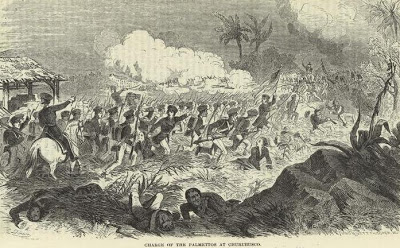 Charge of the Palmettos Harpers Weekly